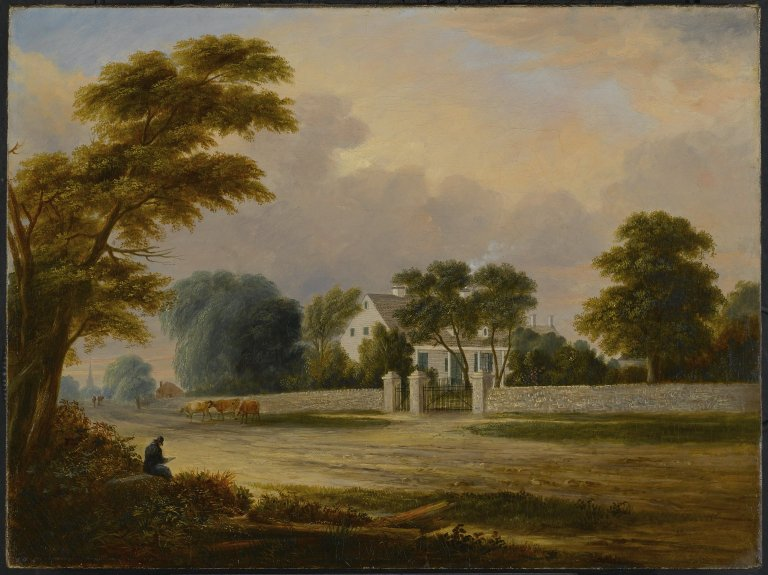 "The Bergen Homestead," view of the home of the Bergen family of Brooklyn, oil on canvas, by American artist Andrew Richardson (1799–1876). Courtesy of the Brooklyn Museum.